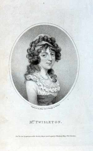 Portrait of Charlotte Twisleton (c.1770–1812) (formerly Charlotte Anne Frances Wattrell), first wife of Thomas Twisleton, later married to Thomas Sandon, English actress.